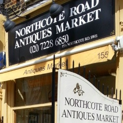 Outside shopfront view of Northcote Road Antiques Market.